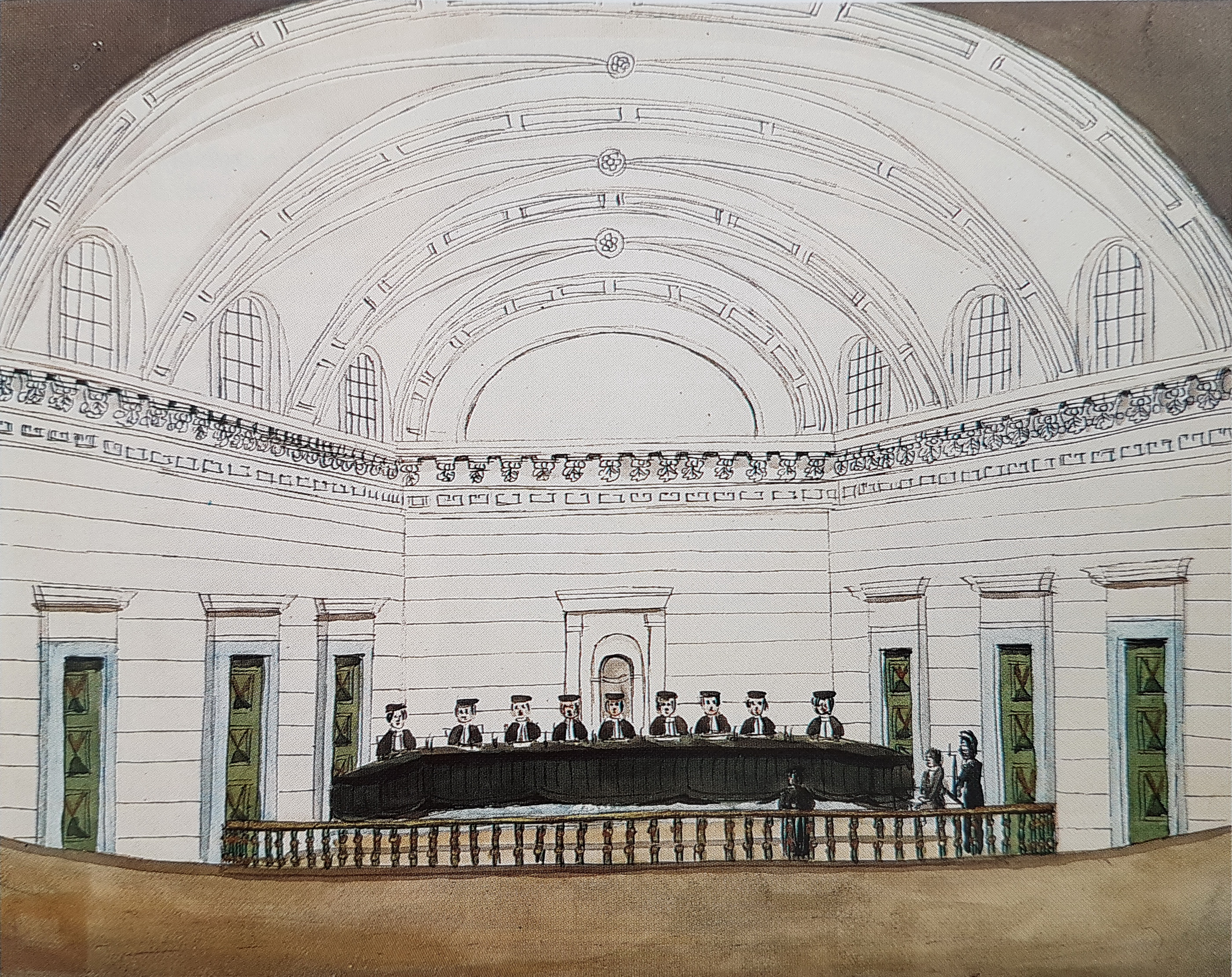 The court of justice at Minderbroedersberg, Maastricht, the Netherlands. The drawing is by local artist Philippe van Gulpen (mid-19th c).